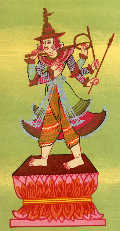 Shin Nyo nat (spirit), th in the official pantheon of Burmese nats